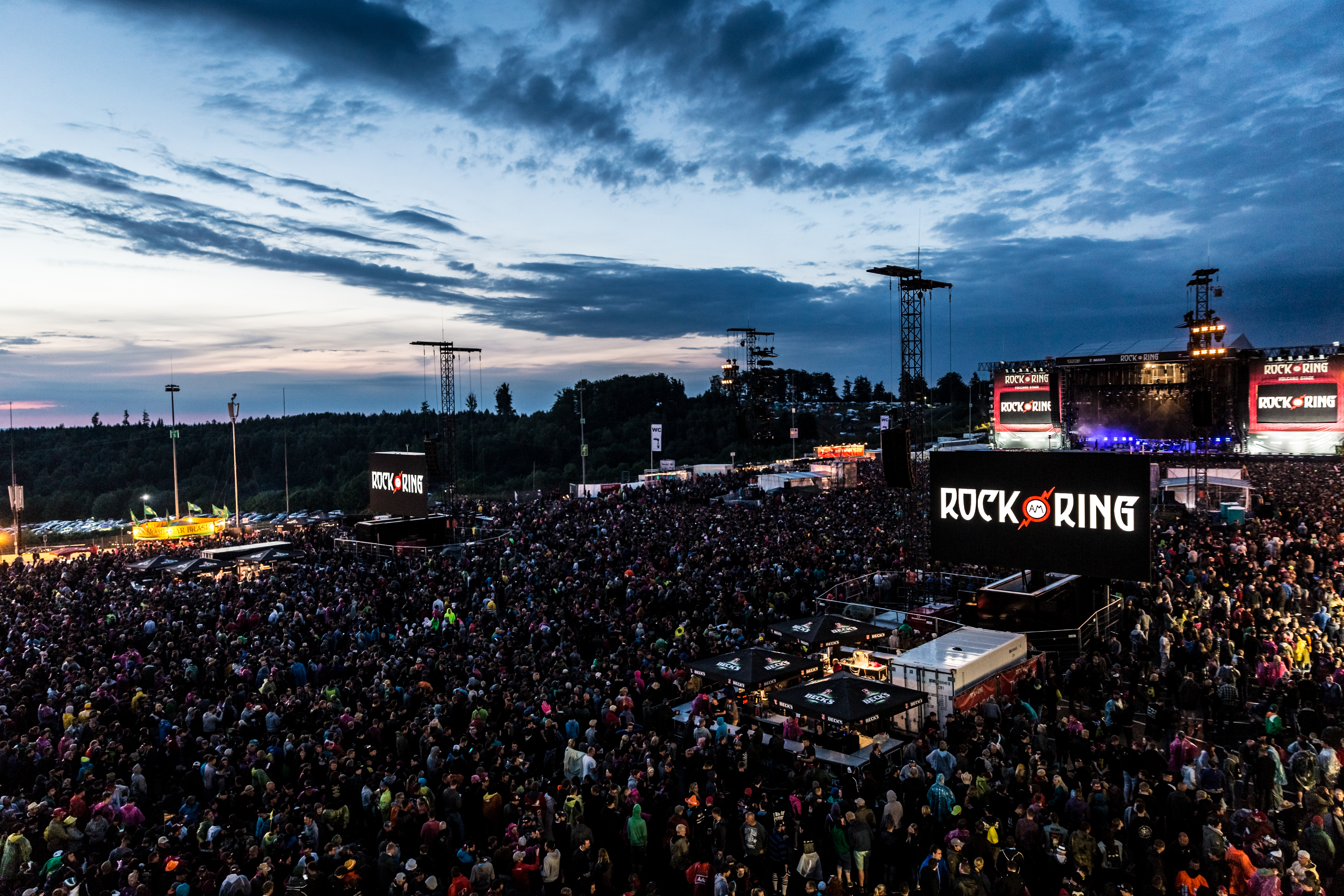 Festivalgelände - Rock am Ring 2017